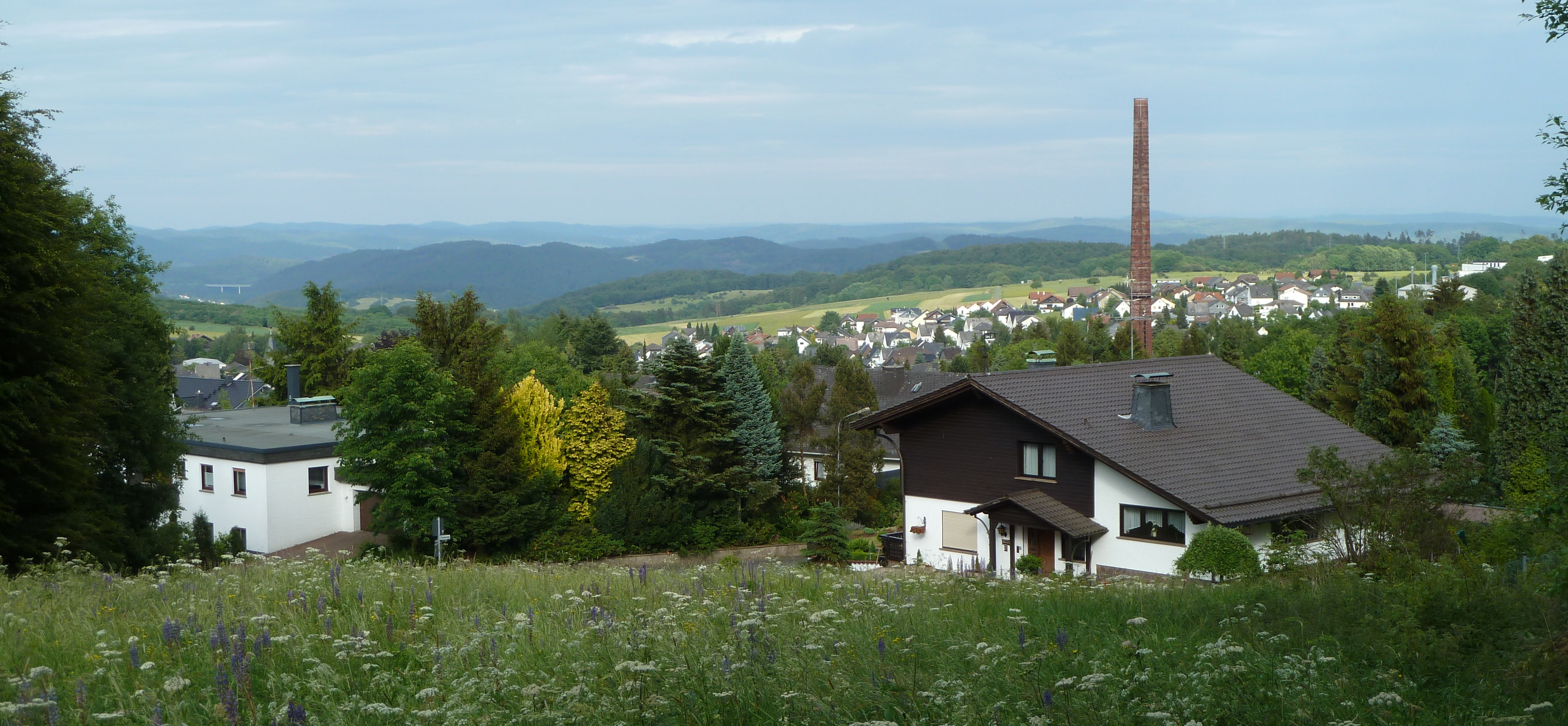 Breitscheid, Hesse, Germany